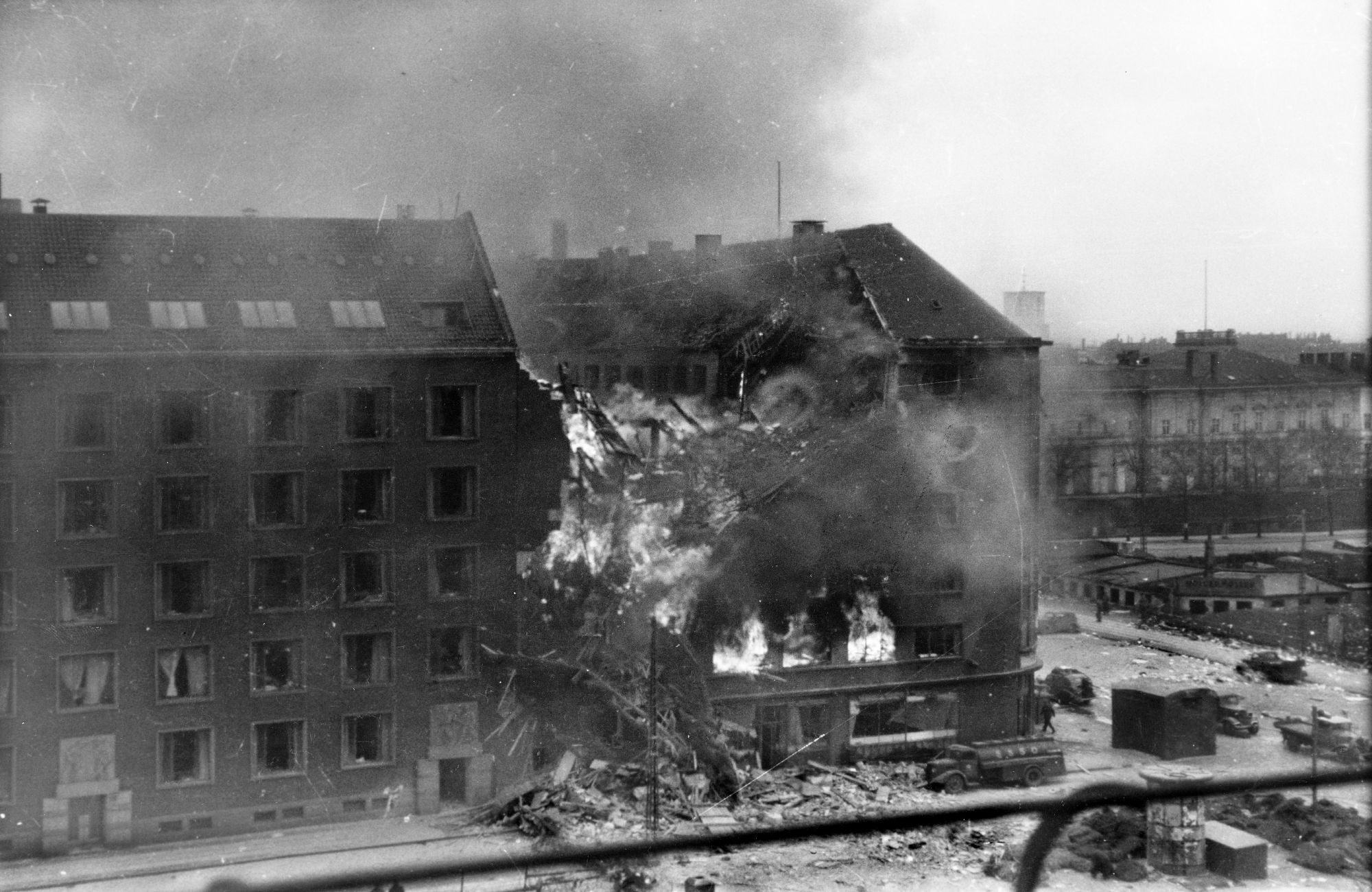 Shellhuset on fire.